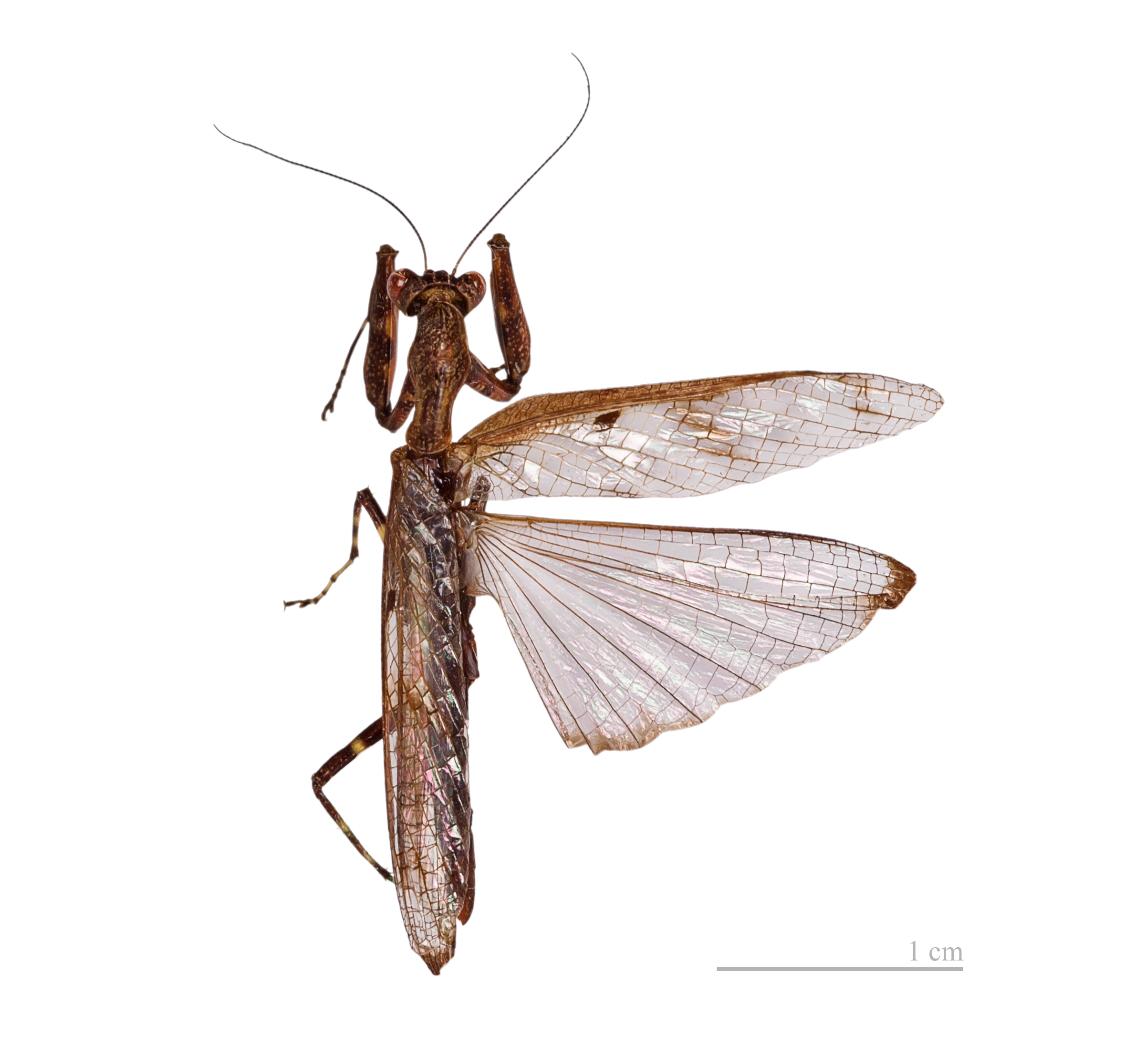 ♂ - Dorsal side Locality Route de Kaw Carbet Orstom, French Guiana.